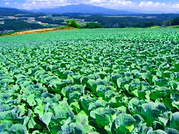 cabbage field Japan